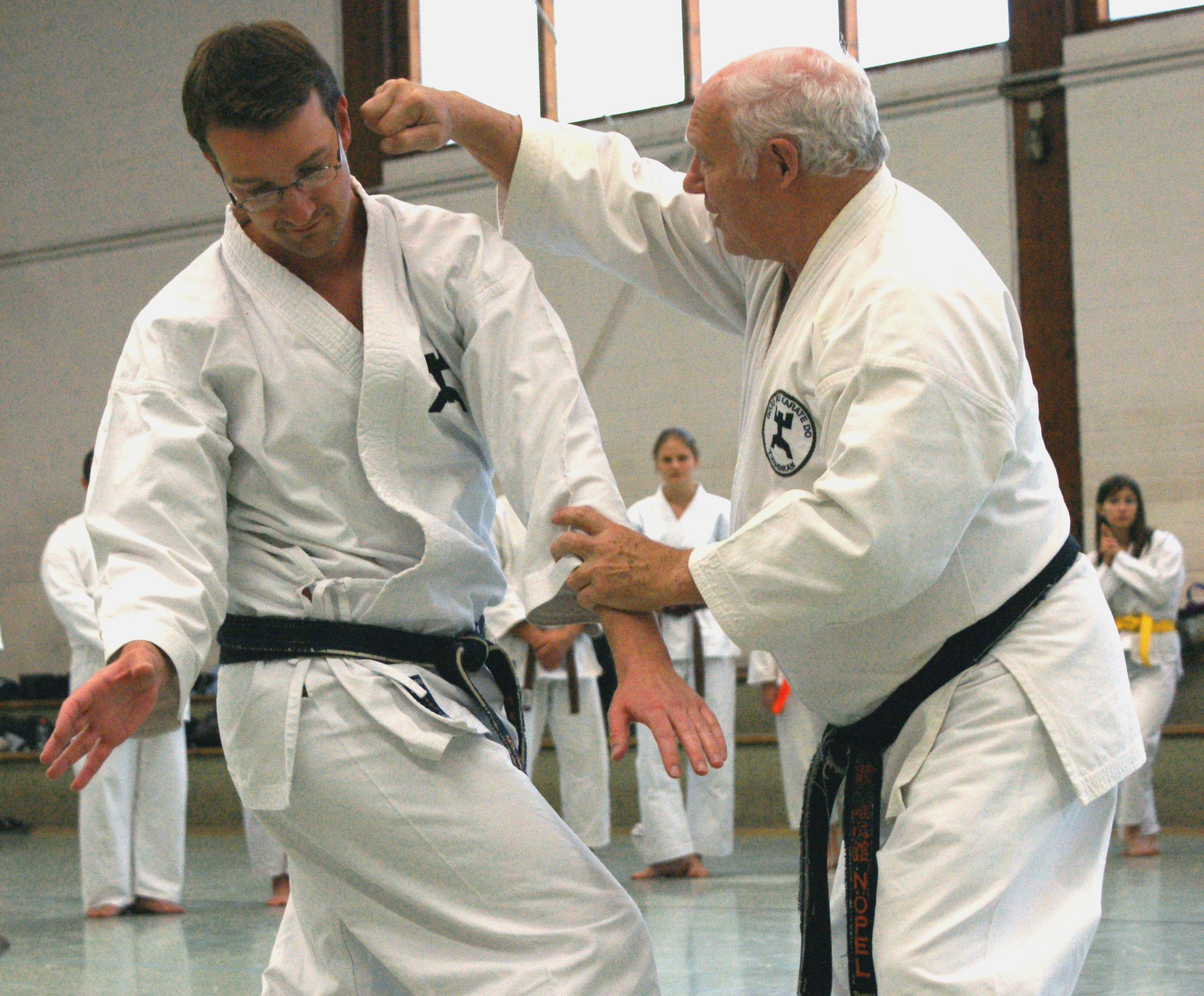 Fritz Nöpel, 9th dan Gōjū-ryū karate, demonstrates Furi uchi with Nakadaka ippon ken with Ralf Budde, 4th dan, on a workshop of Turngemeinde Witten (sports club).